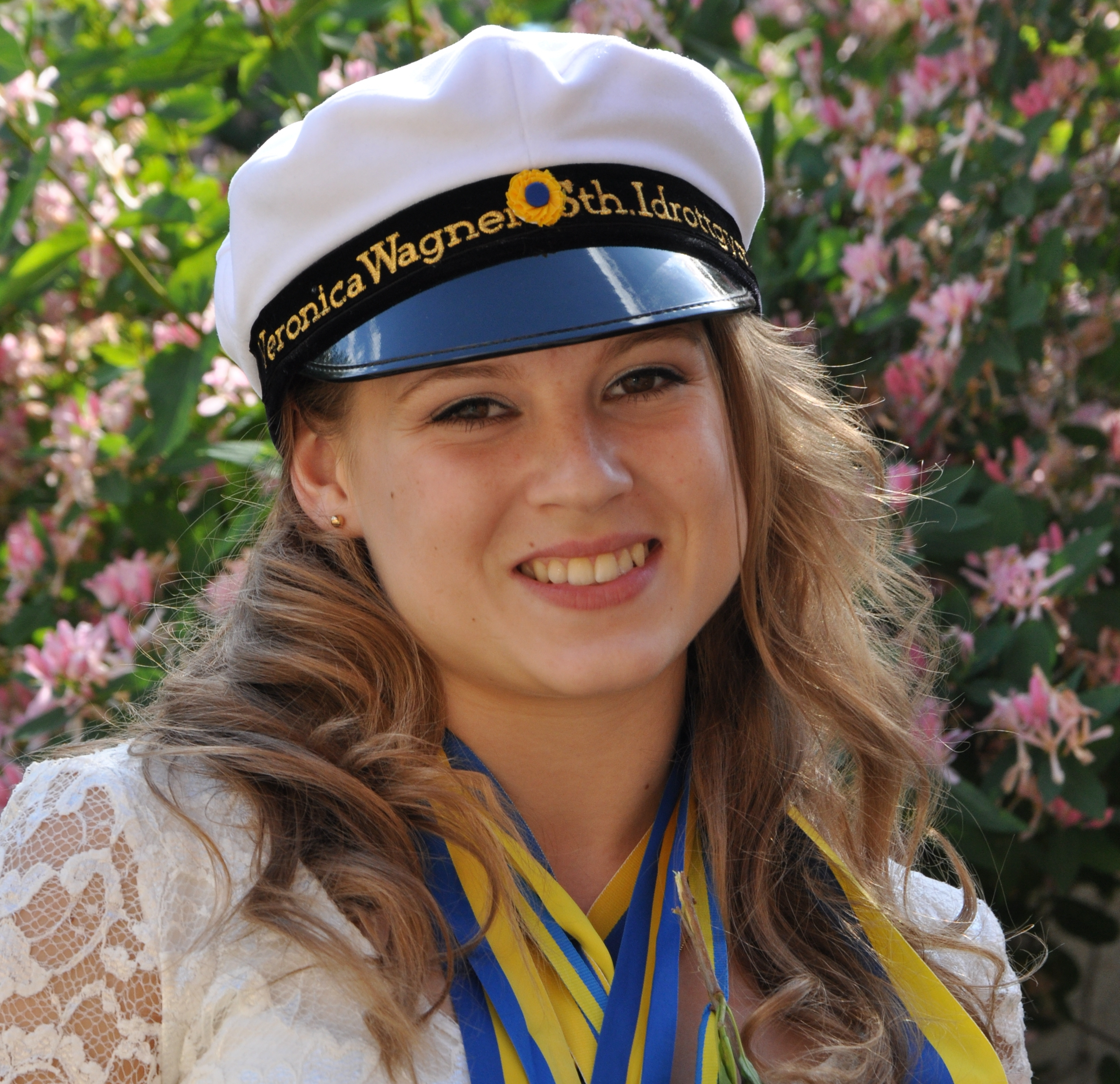 Swedish gymnast Veronica Wagner 2010